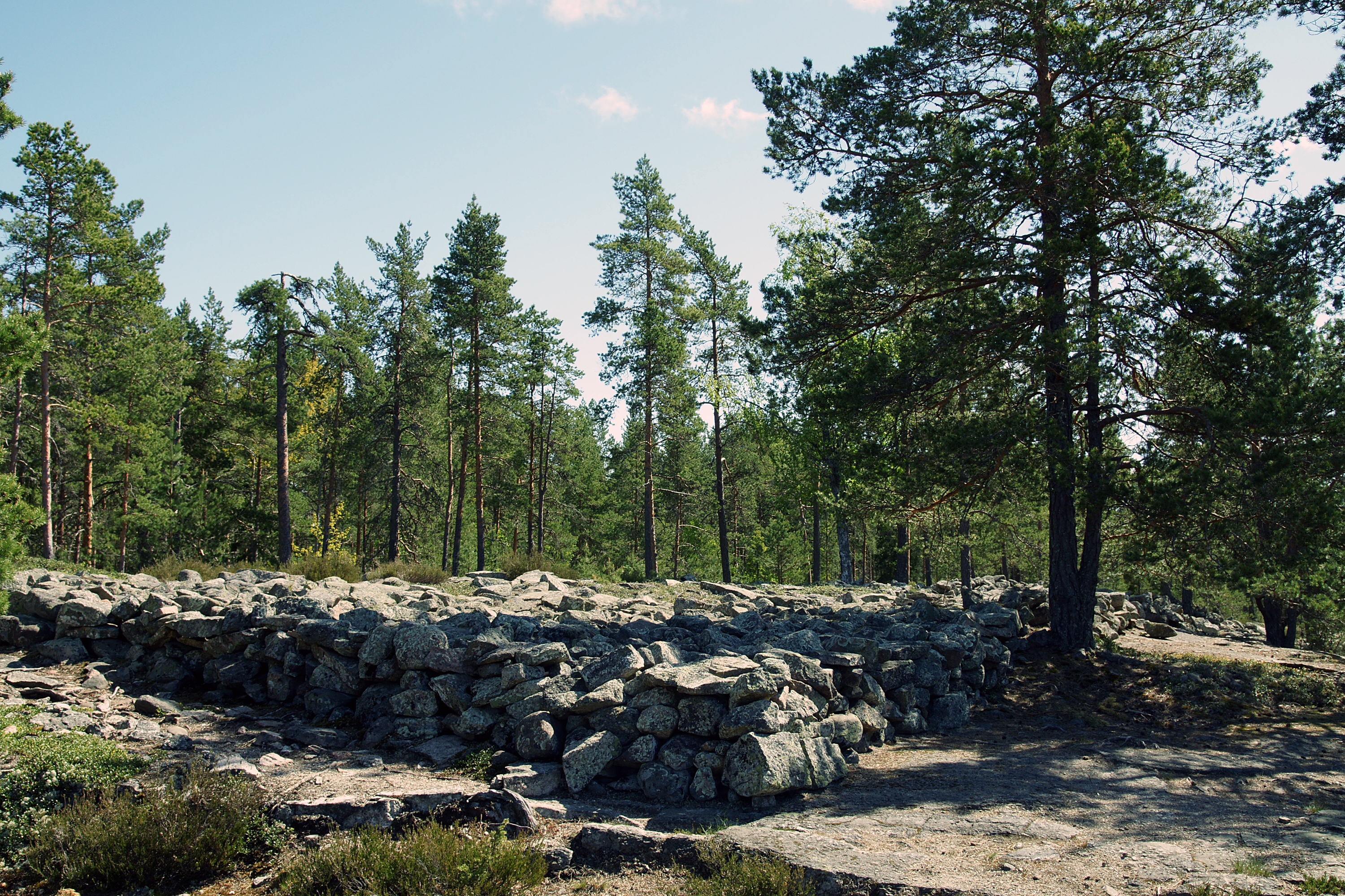 Kirkonlaattia in Sammallahdenmäki bronze age burial site in Lappi, Finland.